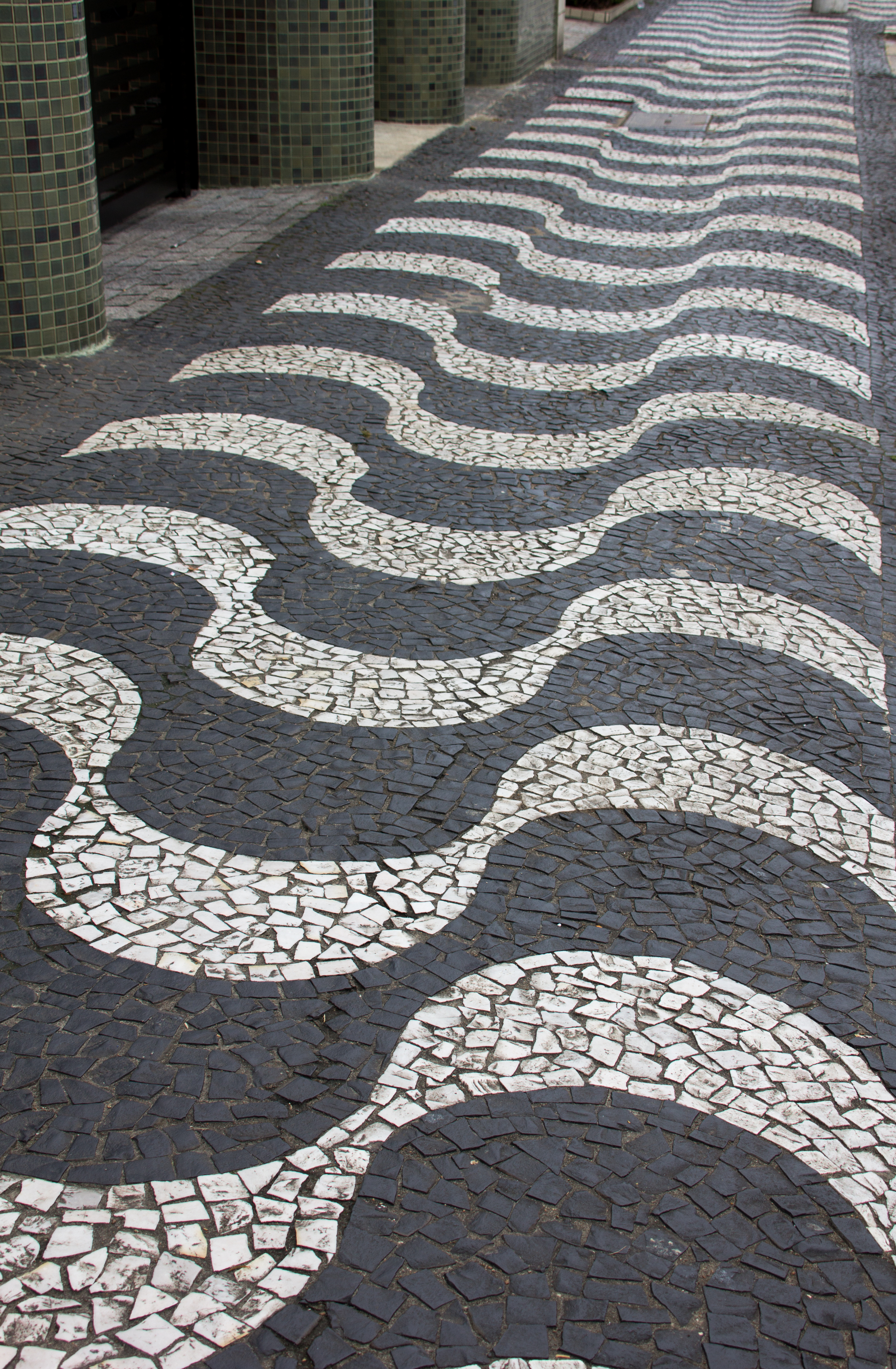 At Santos, Brazil